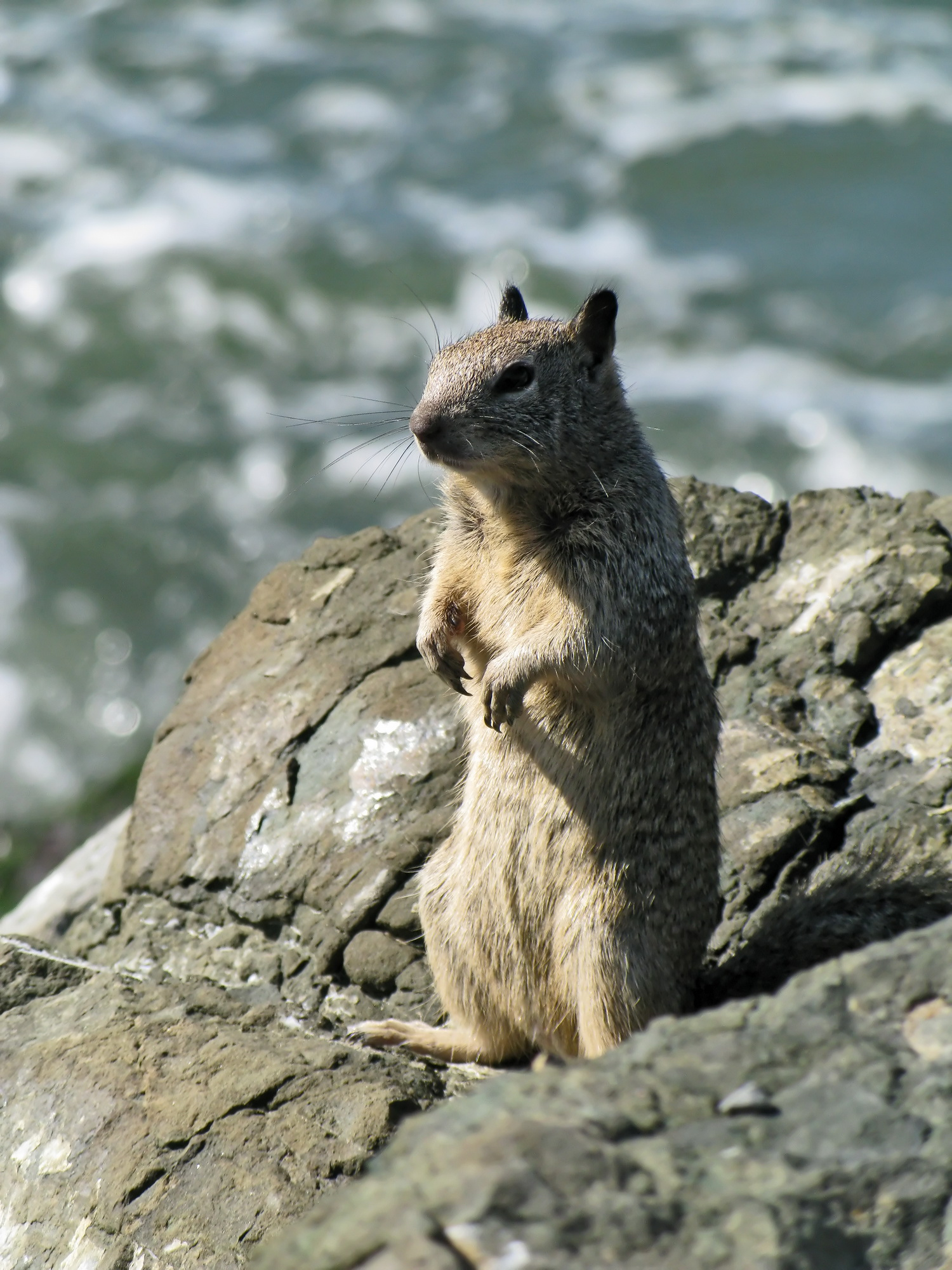 A California Ground Squirrel (Spermophilus beecheyi) in César Chávez Park in the Berkeley Marina, October 2007